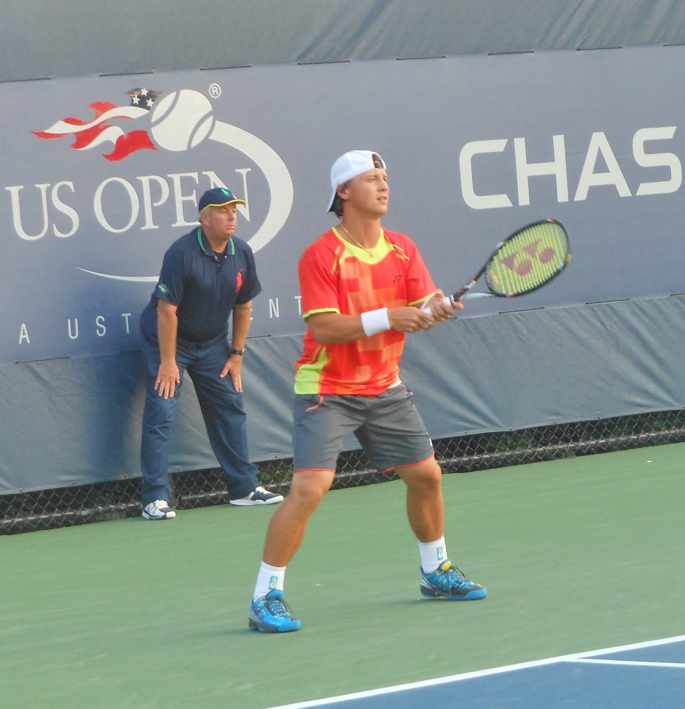 Ricardas Berankis US Open 2012